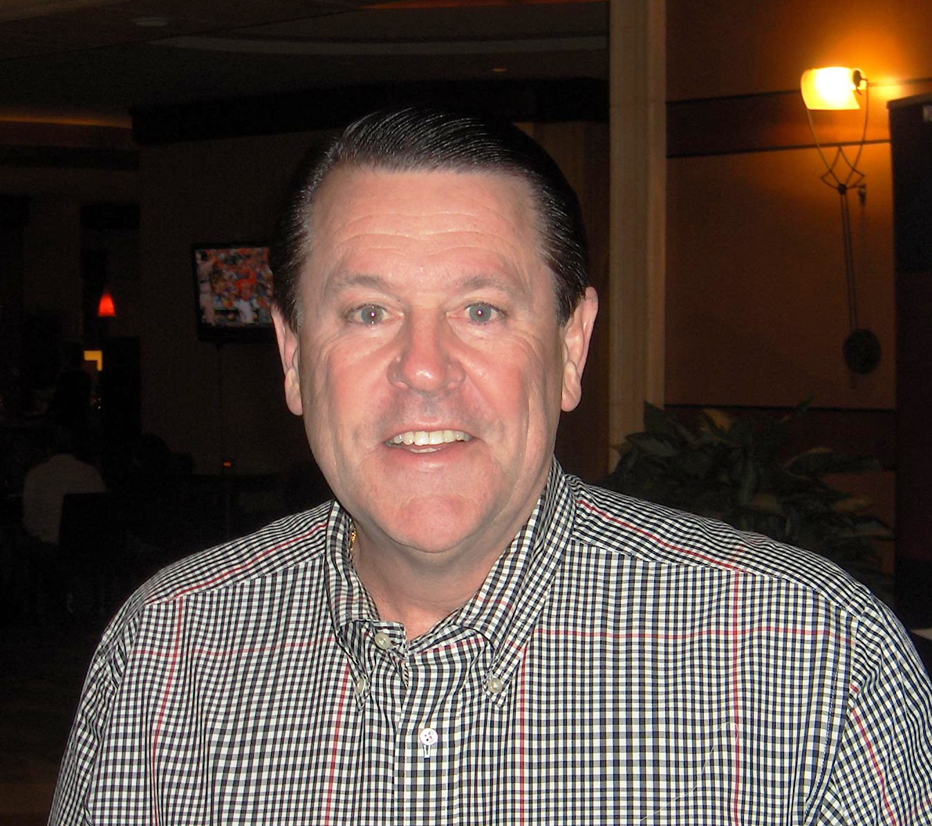 Photo of Andy Landers taken at the 2011 Women's basketball Coaches Association Convention in Indianapolis Indiana.